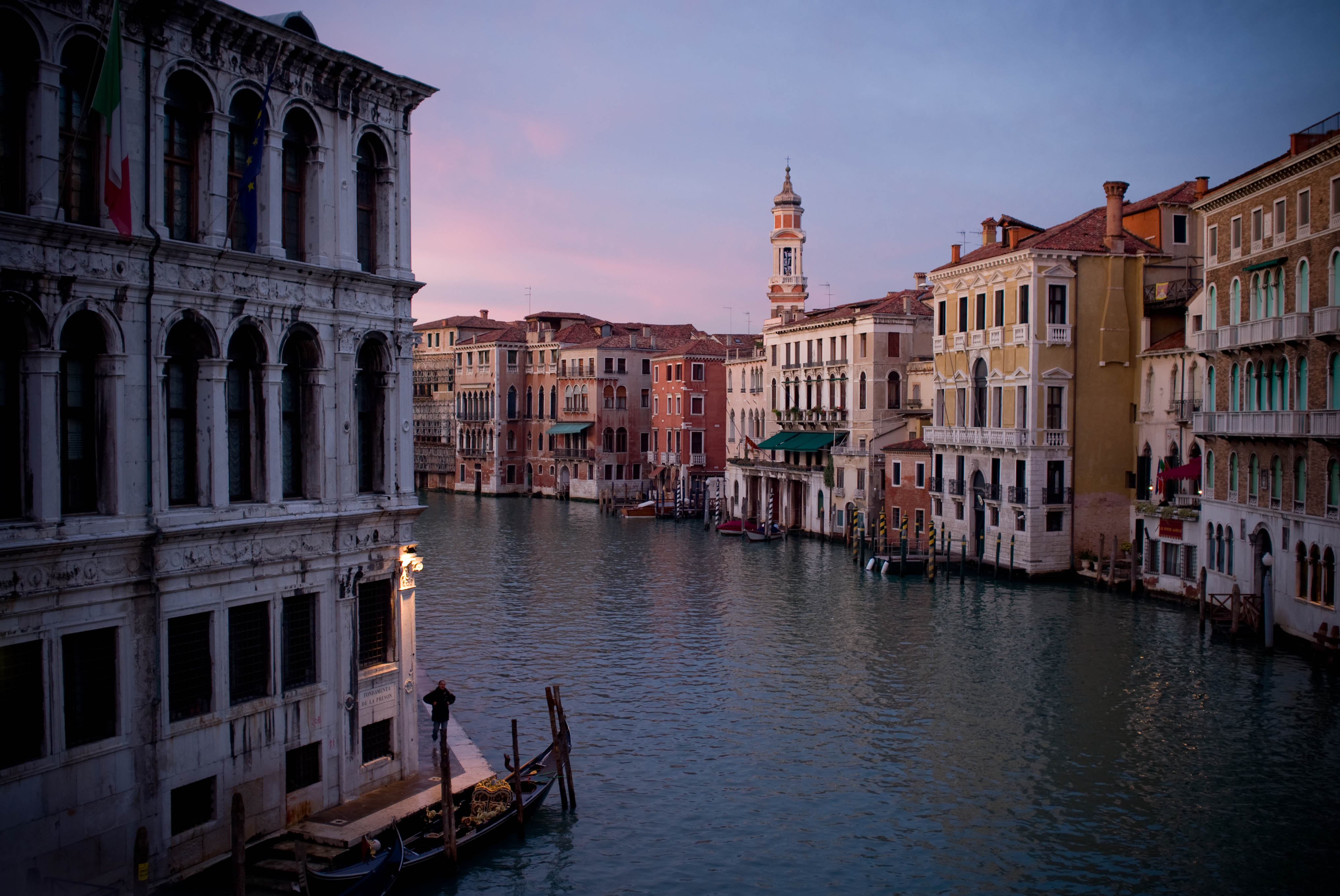 Venice, Italy